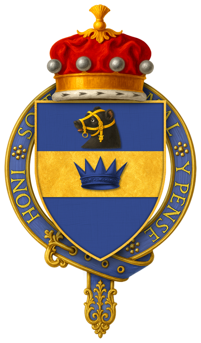 Coat of Arms of Evelyn Baring, 1st Baron Howick of Glendale, KG, GCMG, KCVO